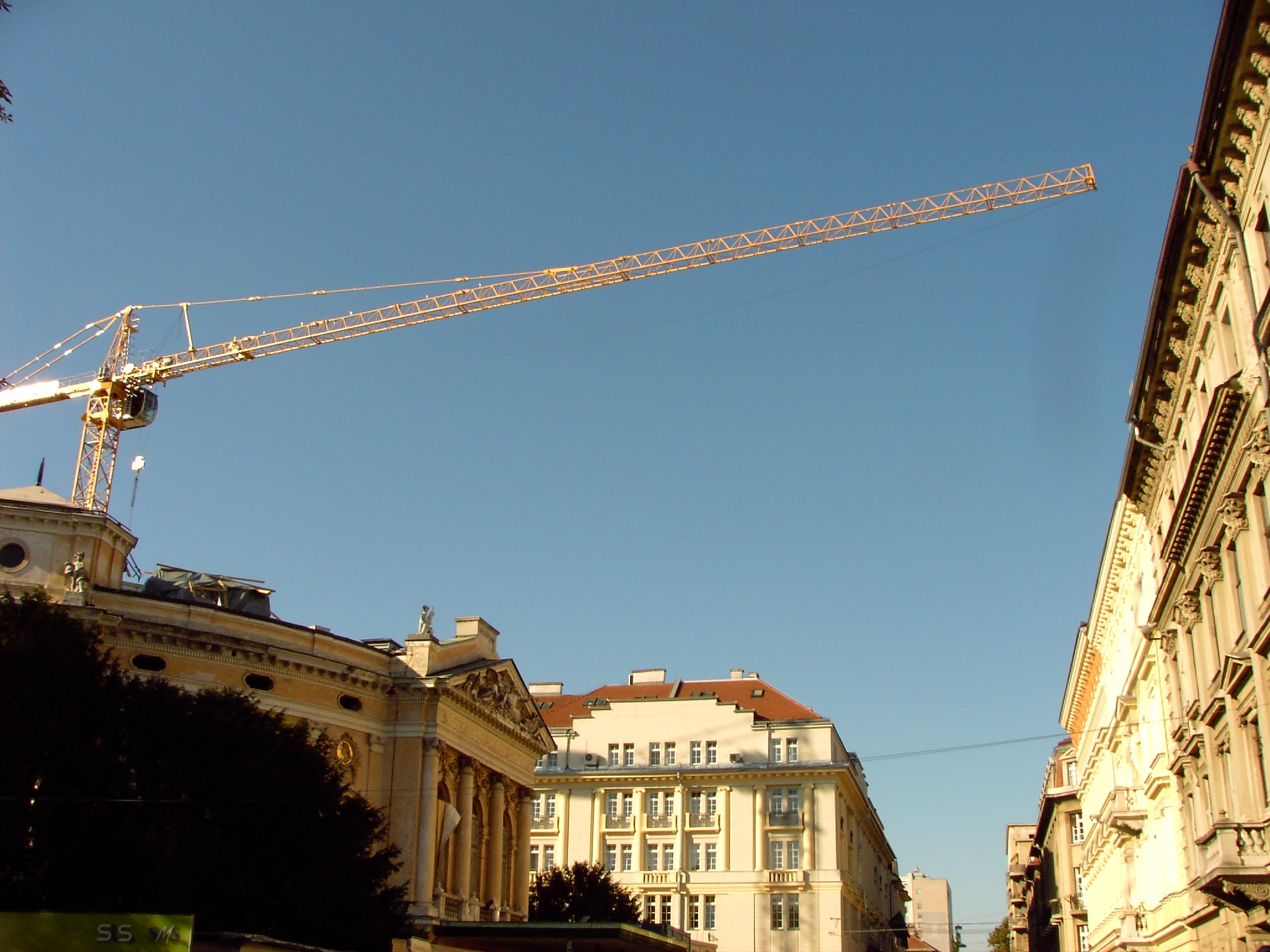 Tower crane in Ljubliana, Slovenia, 2008